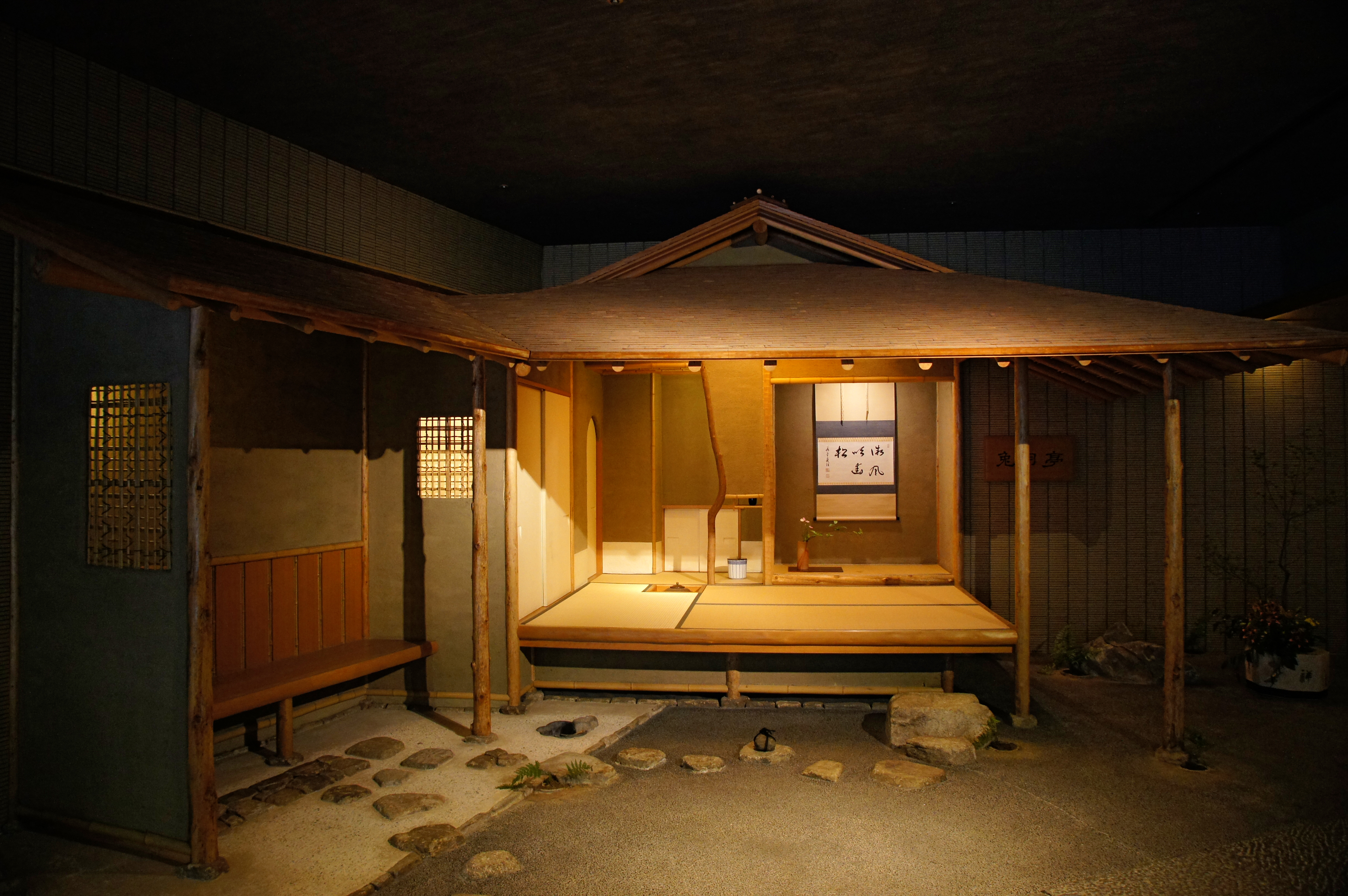 Nishimuraya Hotel Shogetsutei in Kinosaki Onsen town, Toyooka, Hyogo prefecture, Japan.